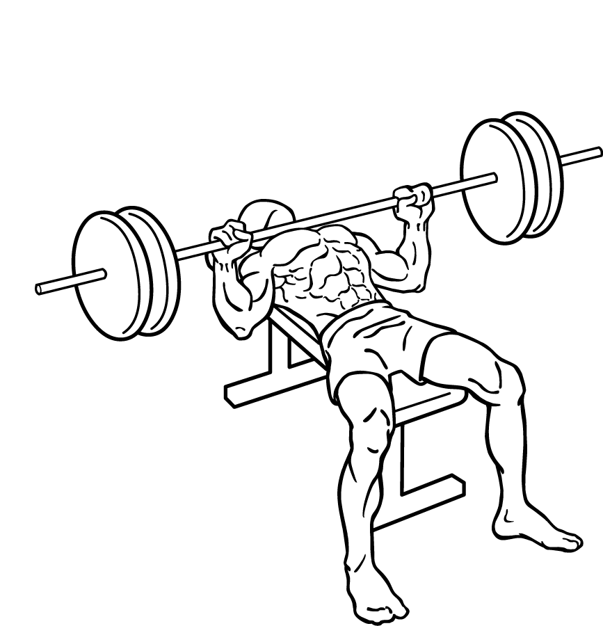 an exercise of chests